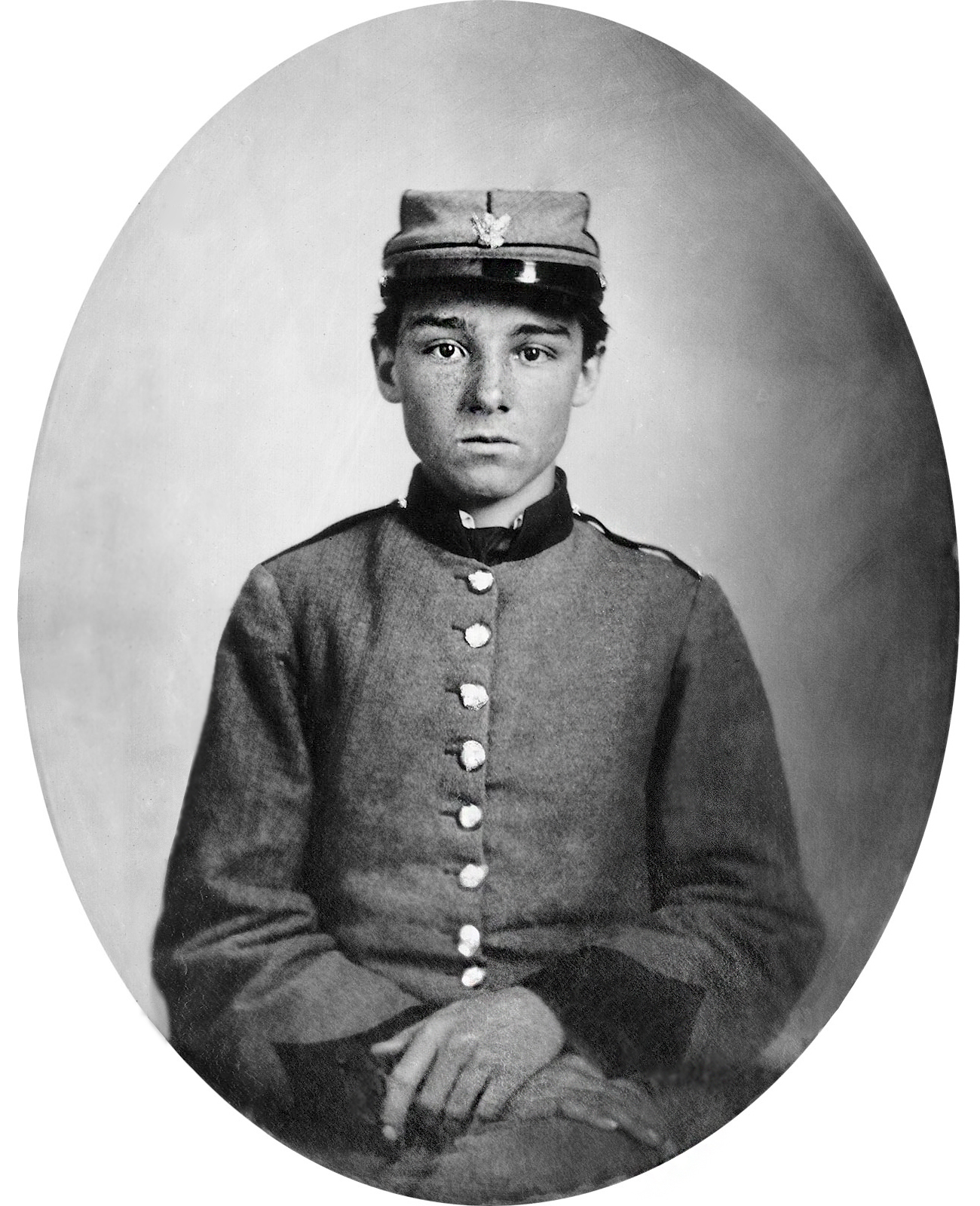 Portrait of Pvt. Edwin Francis Jemison, 2nd Louisiana Infantry Regiment. He served in the Peninsula campaign under General J.B. Magruder and was killed in the battle of Malvern Hill, July, 1862.